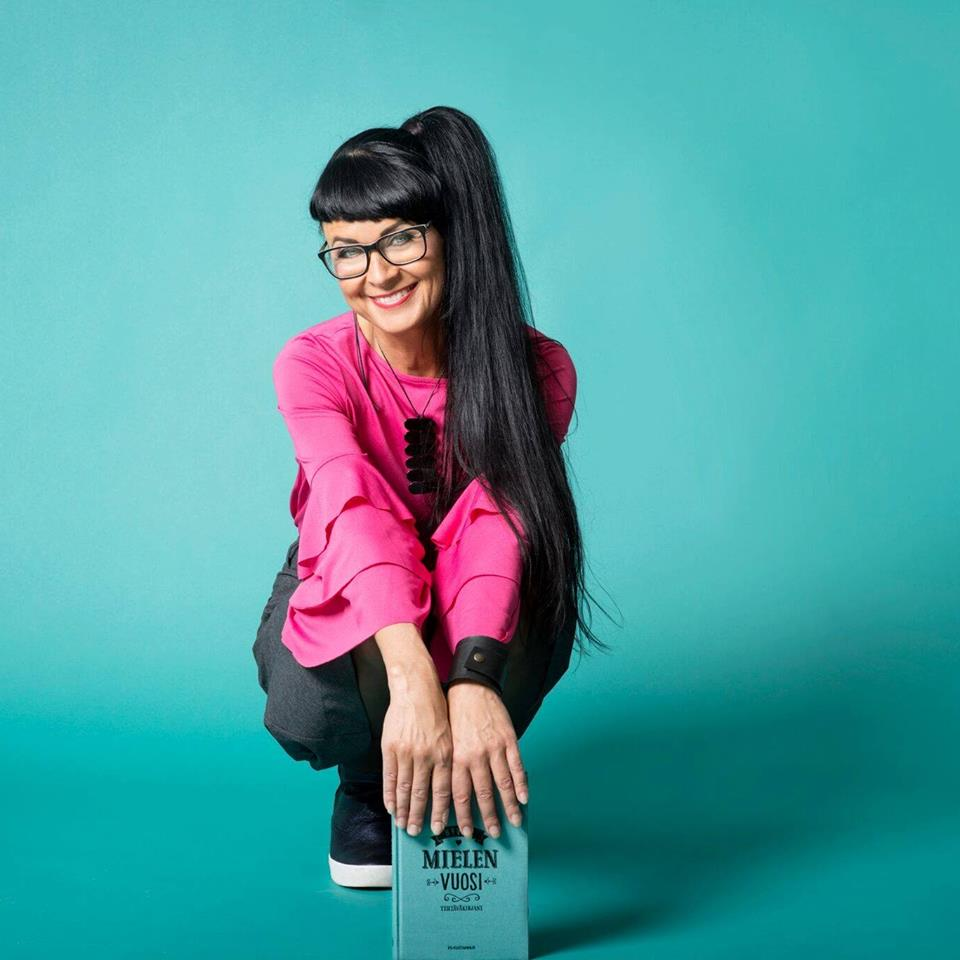 Maaretta Tukiainen in 2017